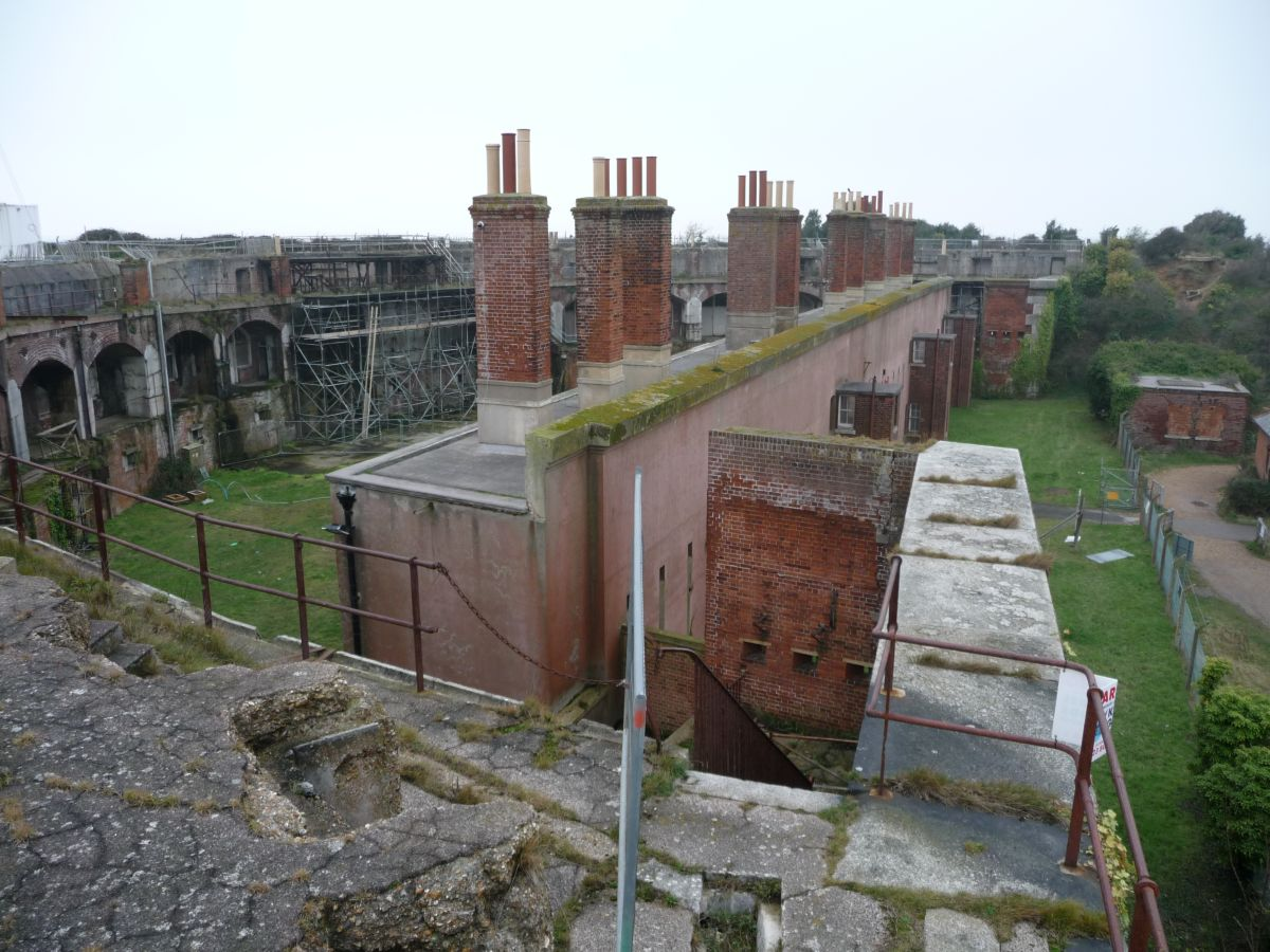 A view across the rear of the fort showing the barrack block with the casemates beyond